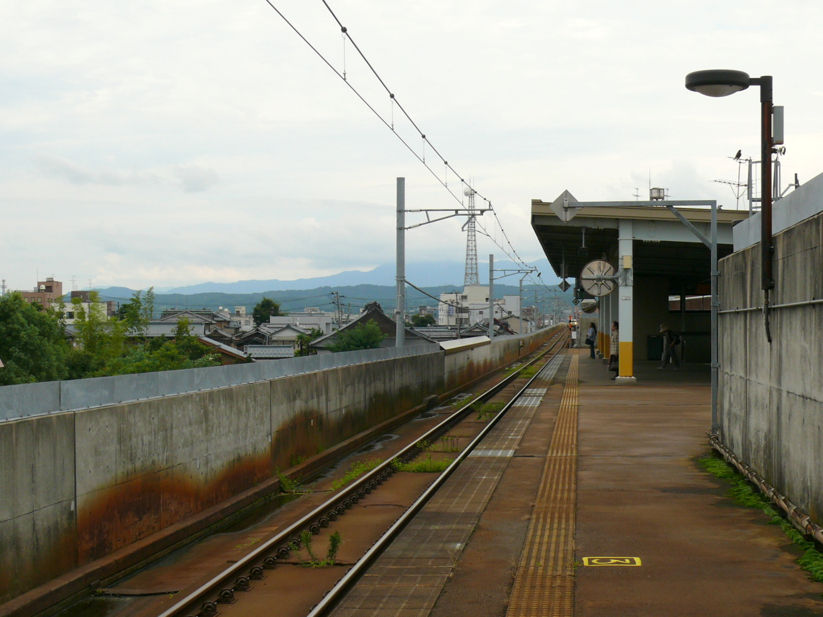 JR East Yahiko Line Kita-Sanjo Station Platform(Niigata ,Japan.)